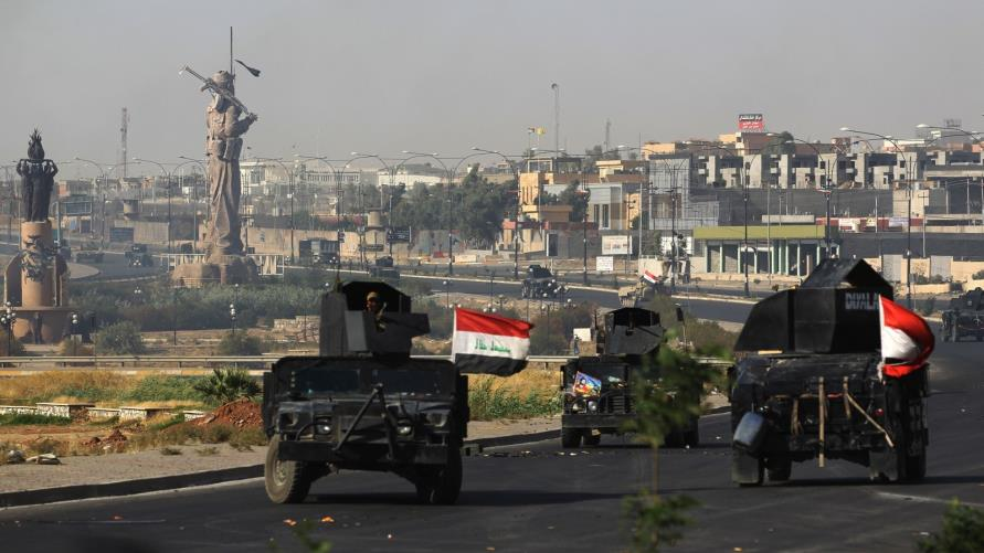 Iraqi armored vehicles